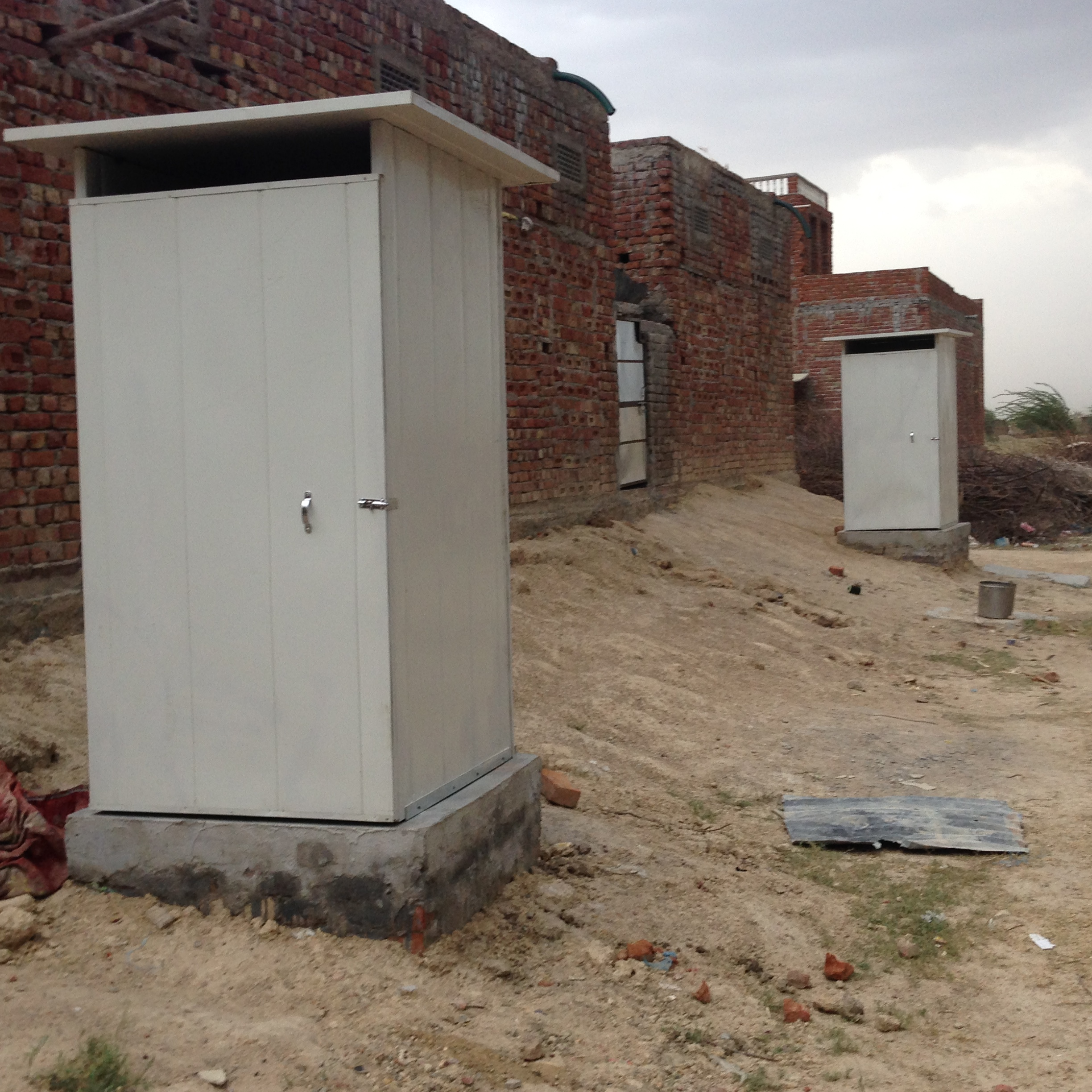 A series of Affordable Toilets built at a Village near Jaipur, Rajasthan.